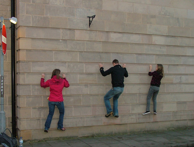 Buildering at Bakewell A little low level traversing on the wall of the Co-op supermarket in Bakewell. For more about "buildering" see Wikipedia Buildering